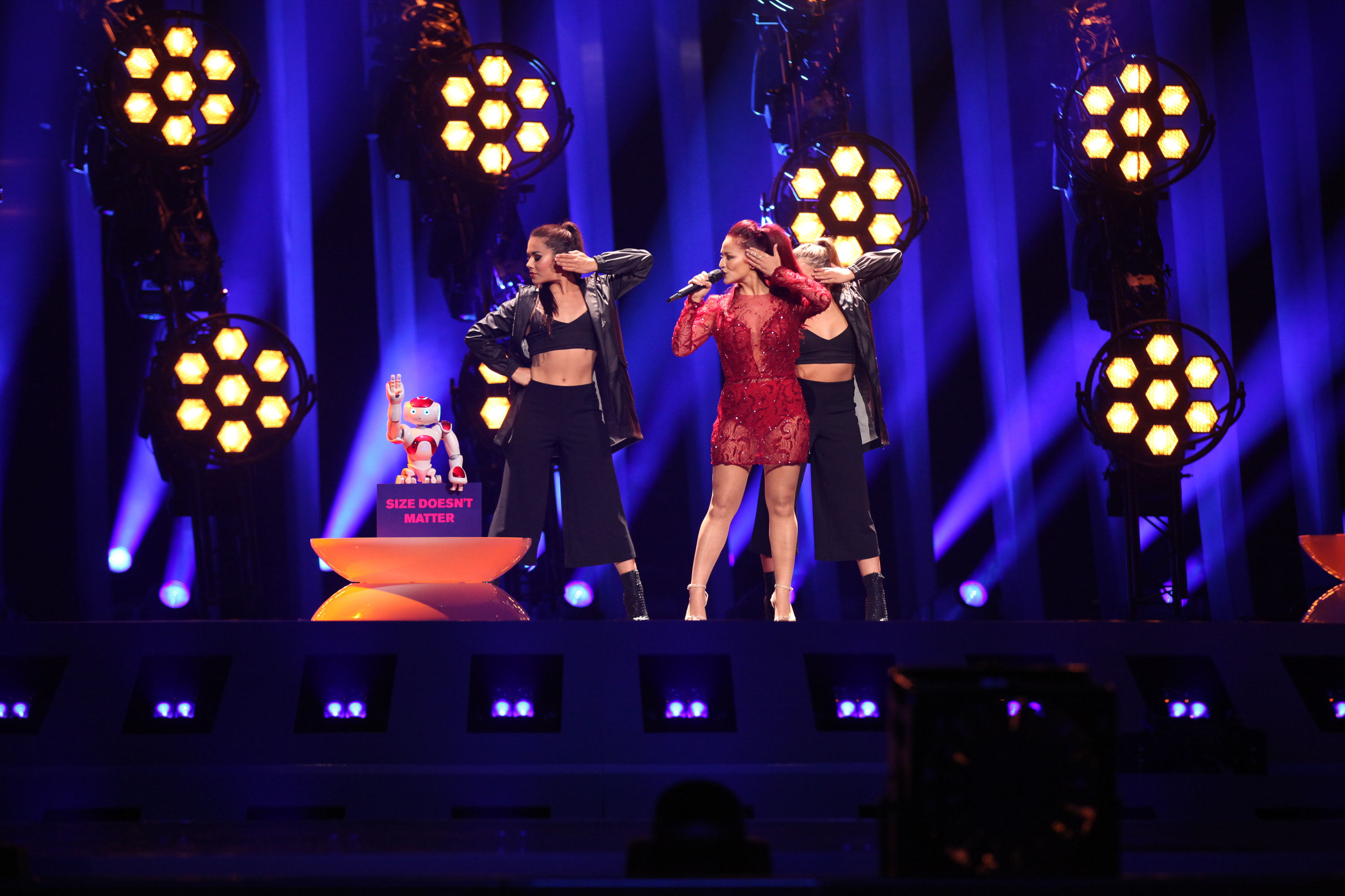 Jessika feat. Jenifer Brening representing San Marino with the song "Who We Are" during a rehearsal before the second semi final of the Eurovision Song Contest 2018 in Lisbon.